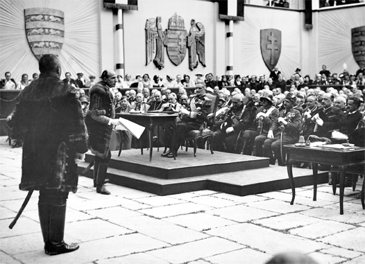 The meeting of the Hungarian Parliament in Székesfehérvár, 1938